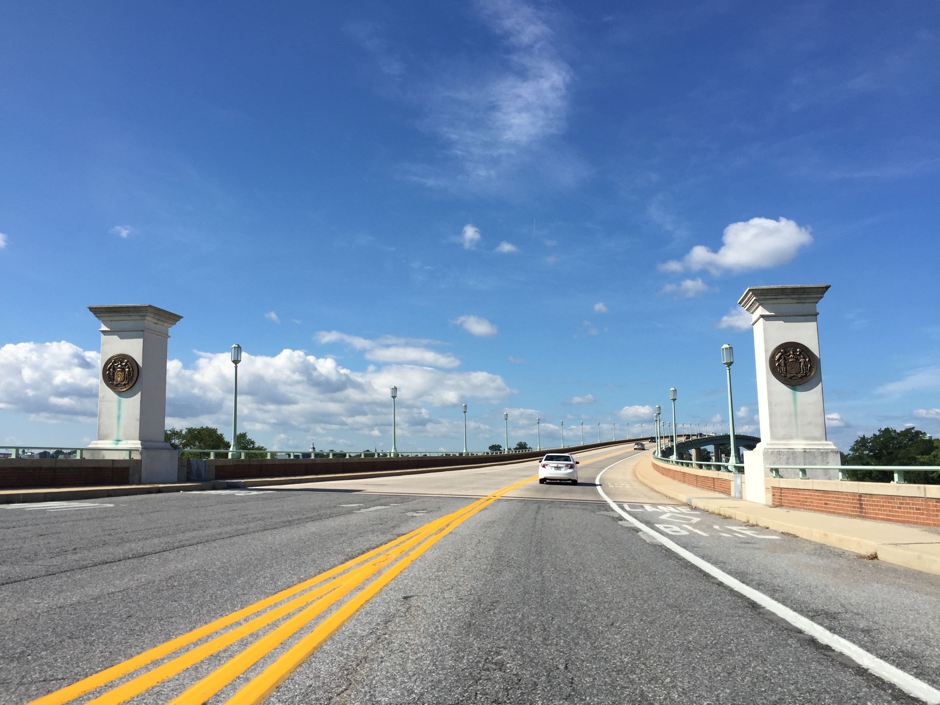 View south along Maryland State Route 450 (Baltimore-Annapolis Boulevard) at the northeast end of the Naval Academy Bridge over the Severn River, crossing from Pendennis Mount to Annapolis in Anne Arundel County, Maryland